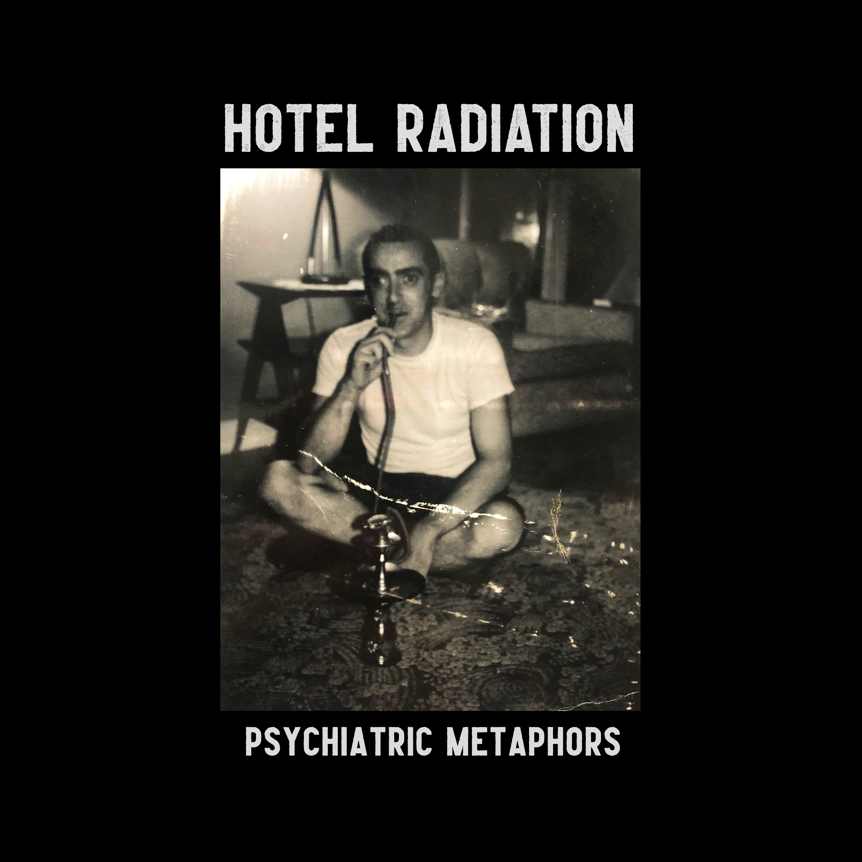 Album Art